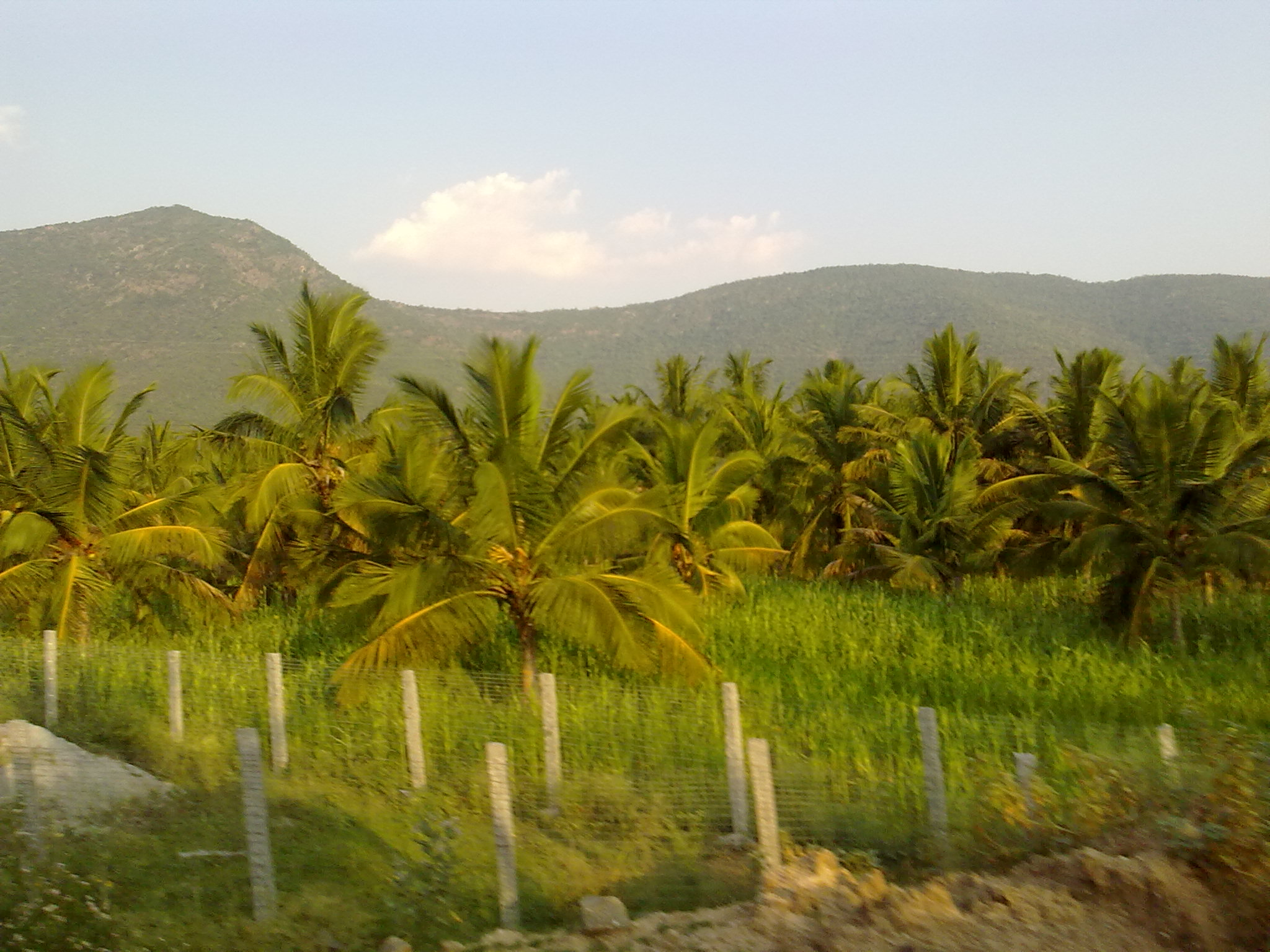 A view of coconut farm